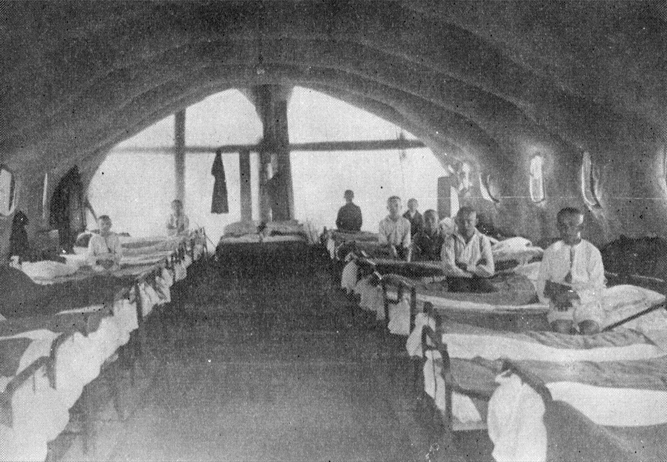 The child's sanatorium in Busko-Zdrój (ca.1920)